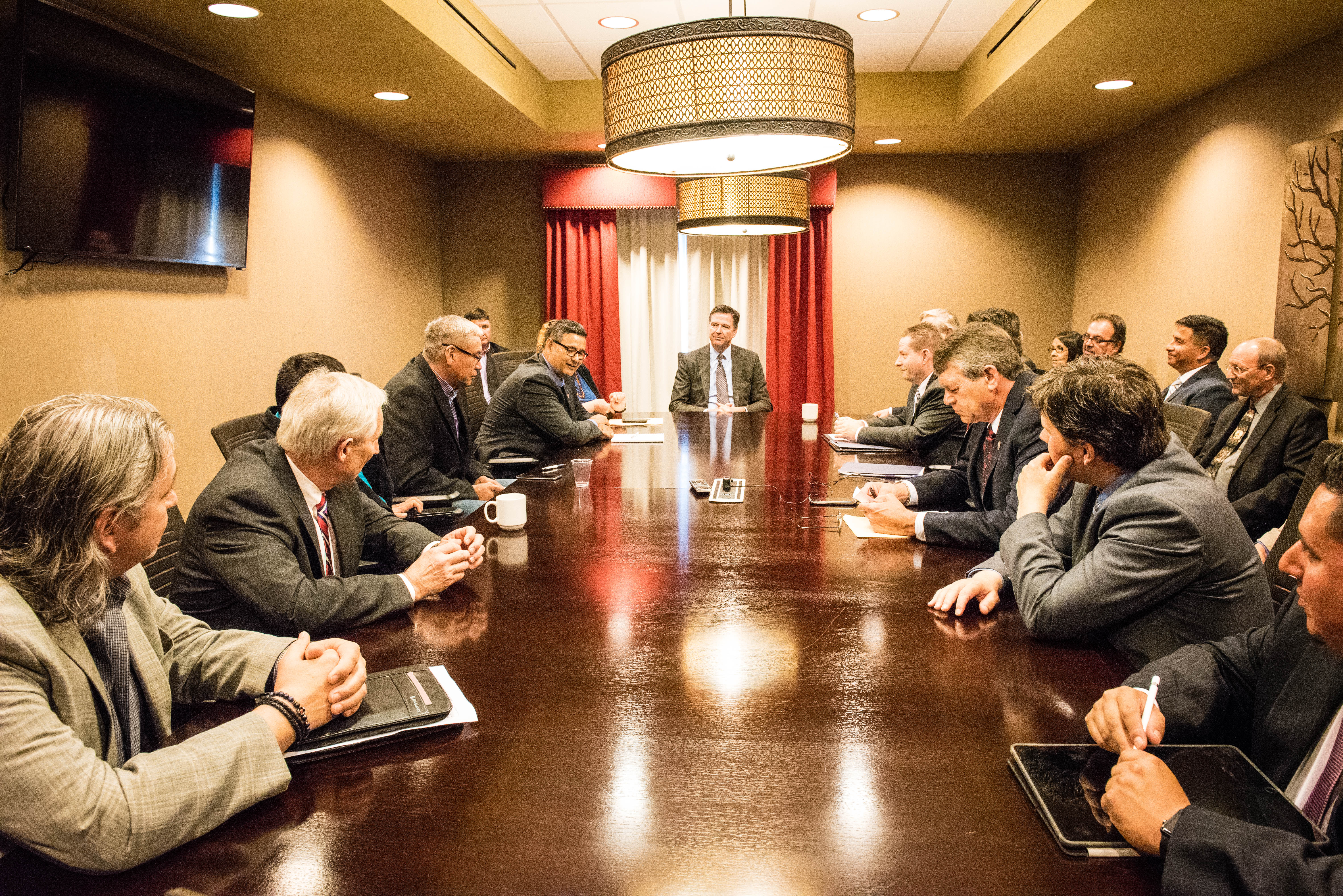 FBI Director James B. Comey discusses the Bureau’s support in fighting rising crime along the Fort Berthold Indian Reservation in Western North Dakota with state, local, and tribal leaders during a meeting June 6, 2016. Full story